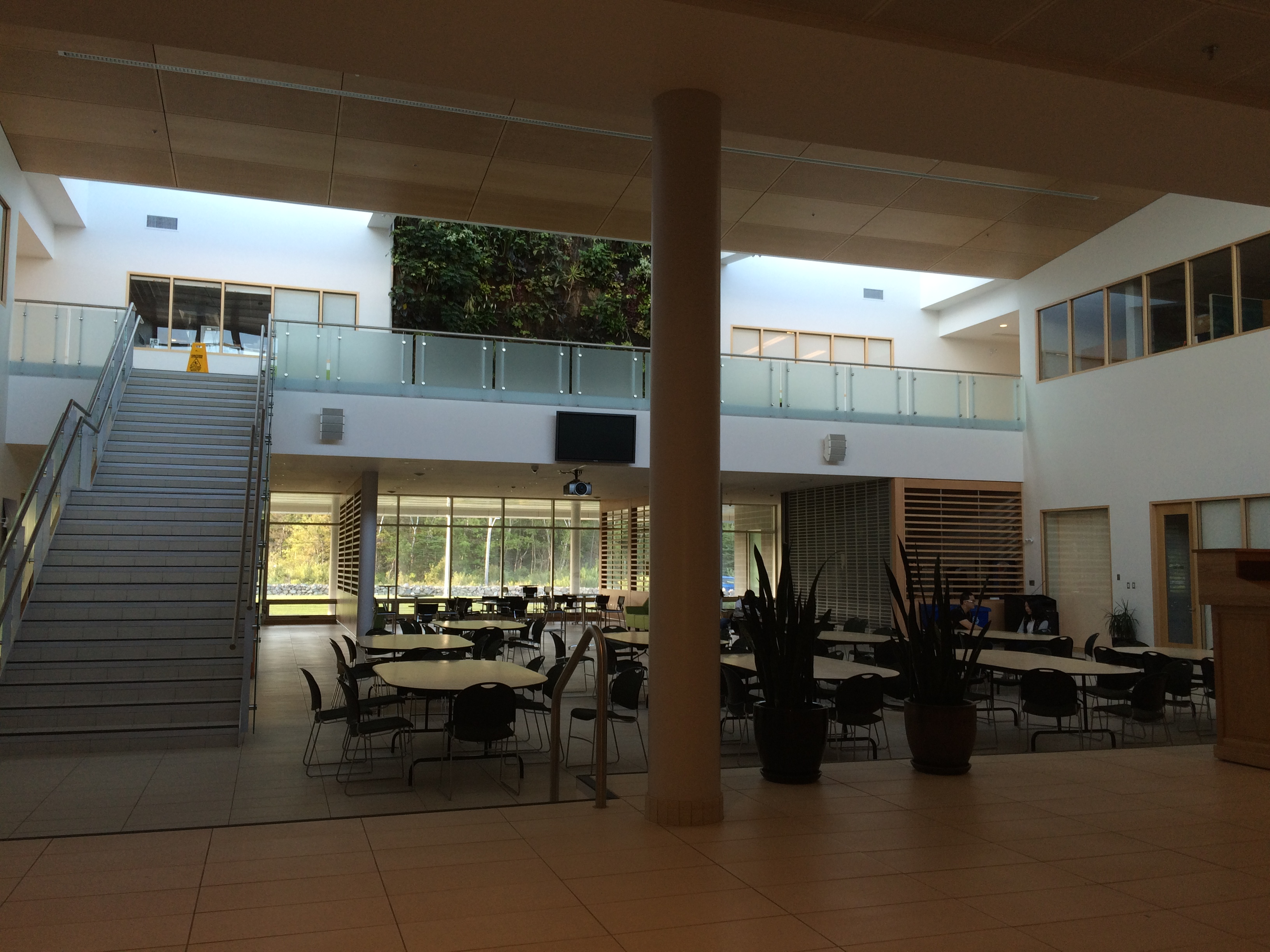 The inside of the Verschuren Centre, Block CS.